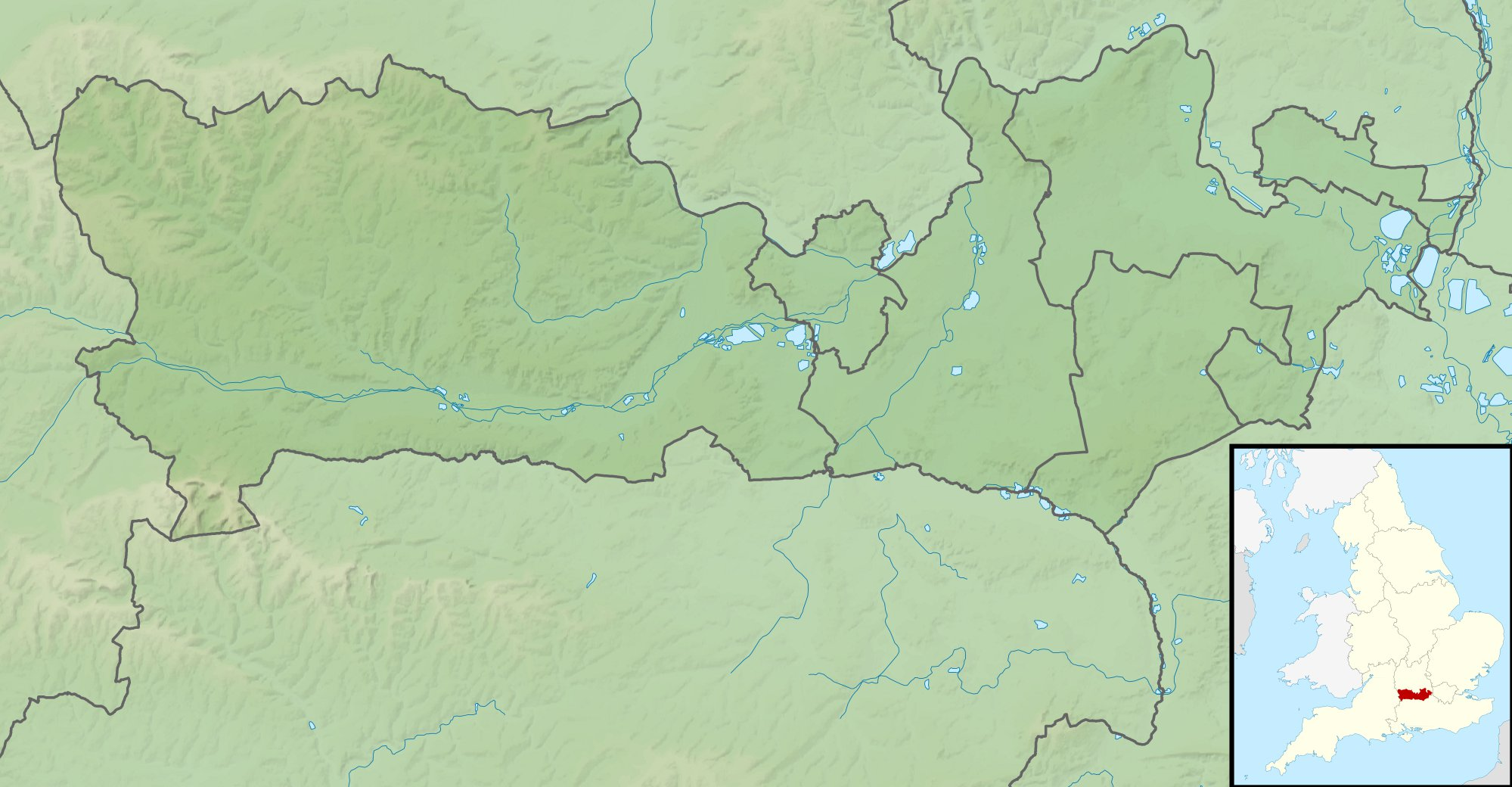 Relief map of Berkshire, UK. Equirectangular map projection on WGS 84 datum, with N/S stretched 160% Geographic limits: West: 1.63W East: 0.46W North: 51.59N South: 51.21N